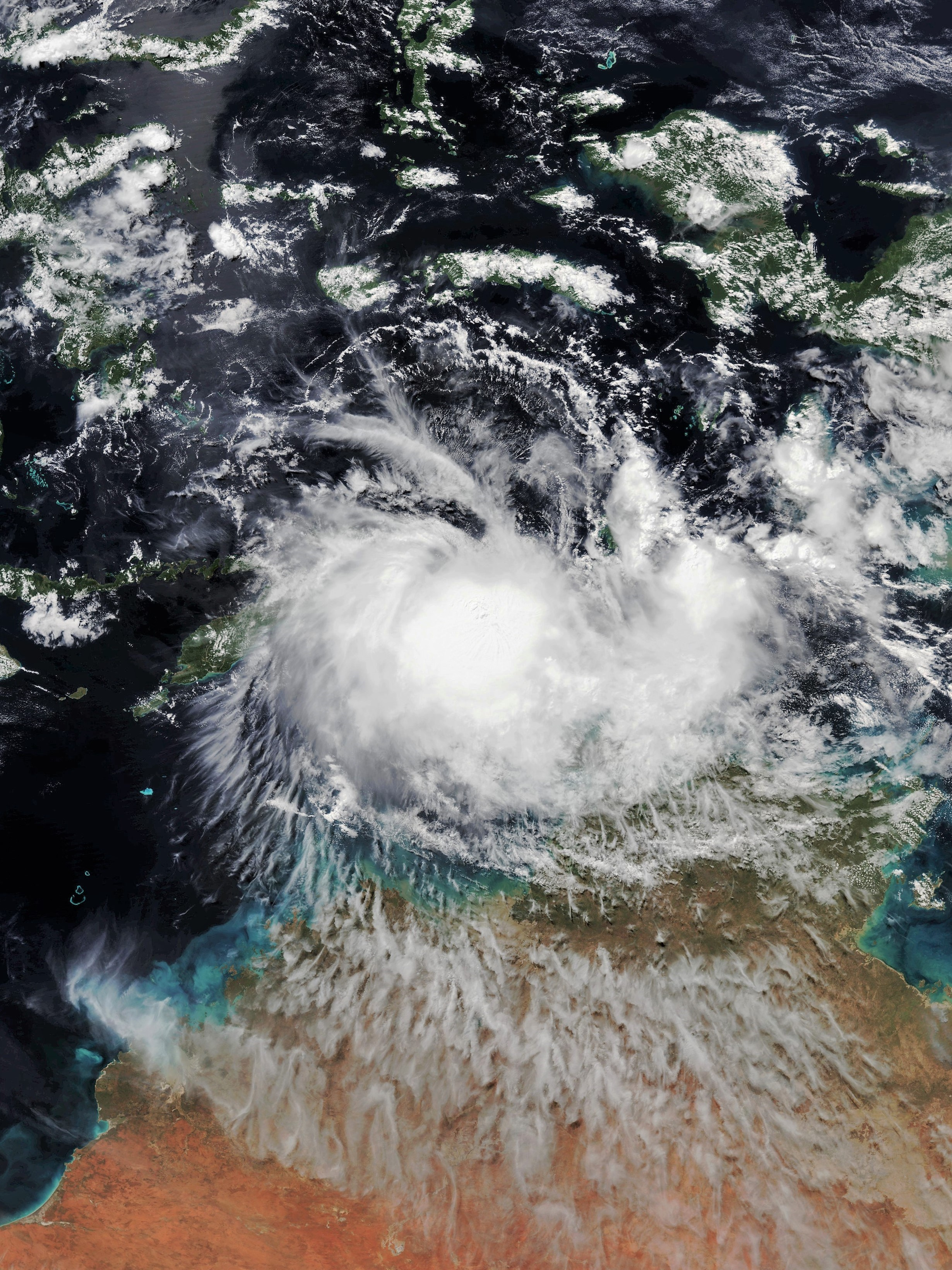 Tropical Cyclone Lili located over the northern Timor Sea on 9 May 2019. The off-season cyclone is pictured slightly before peak intensity.